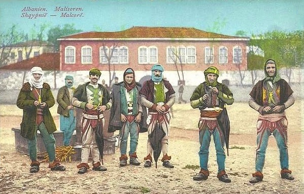 Albanias in costumes